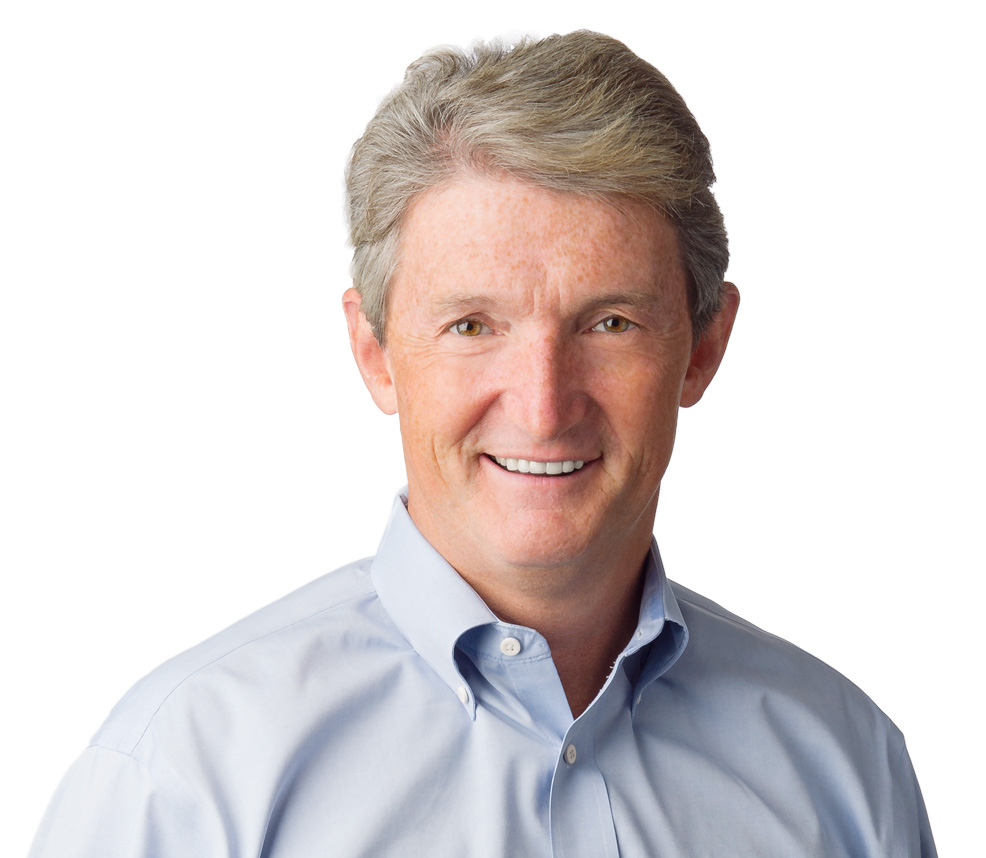 Photo of Bob Davis the founder of Lycos and General Partner with Highland Capital Partners.